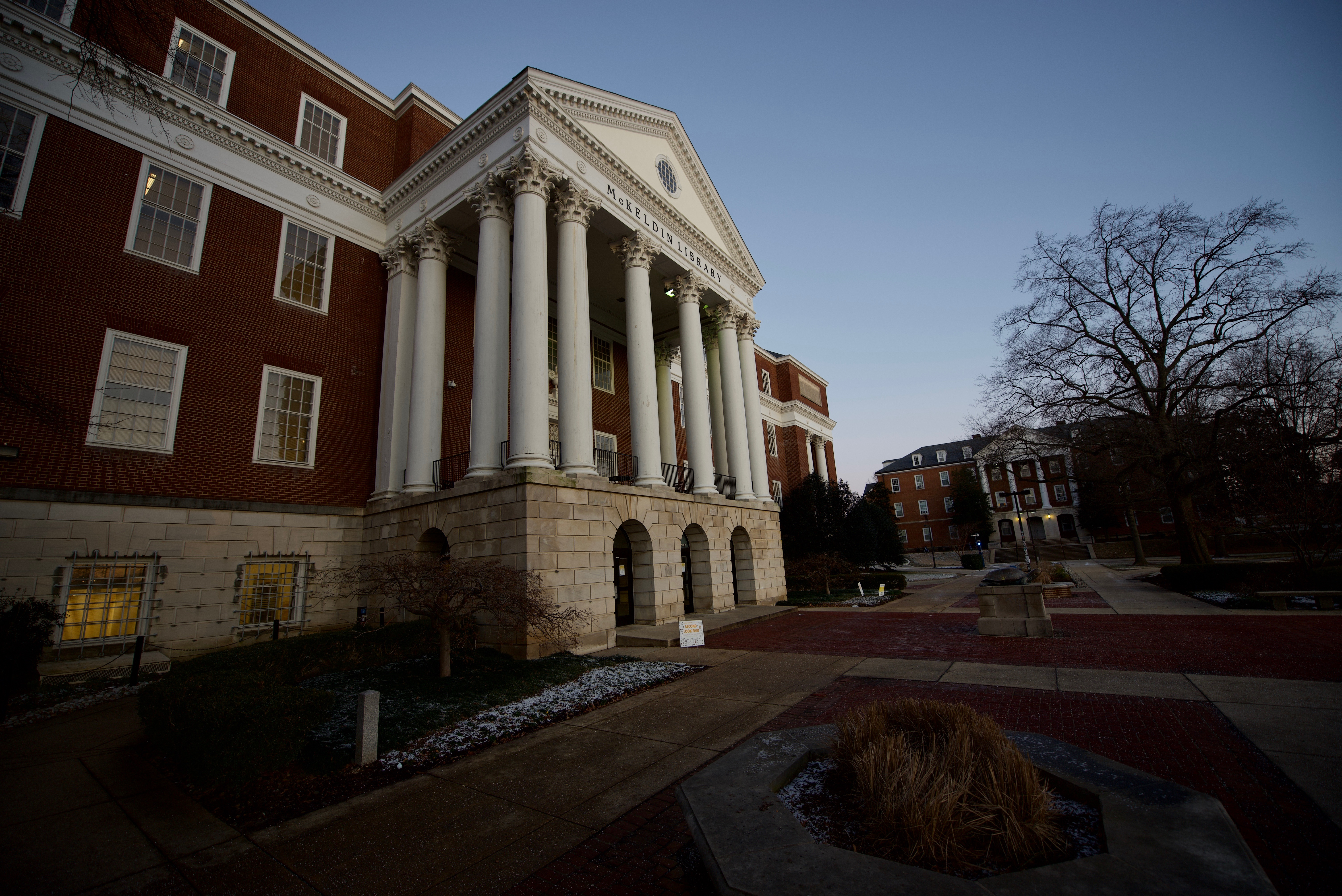 The McKeldin Library in a winter morning. Testudo can be seen in front of the building watching over the McKeldin Mall